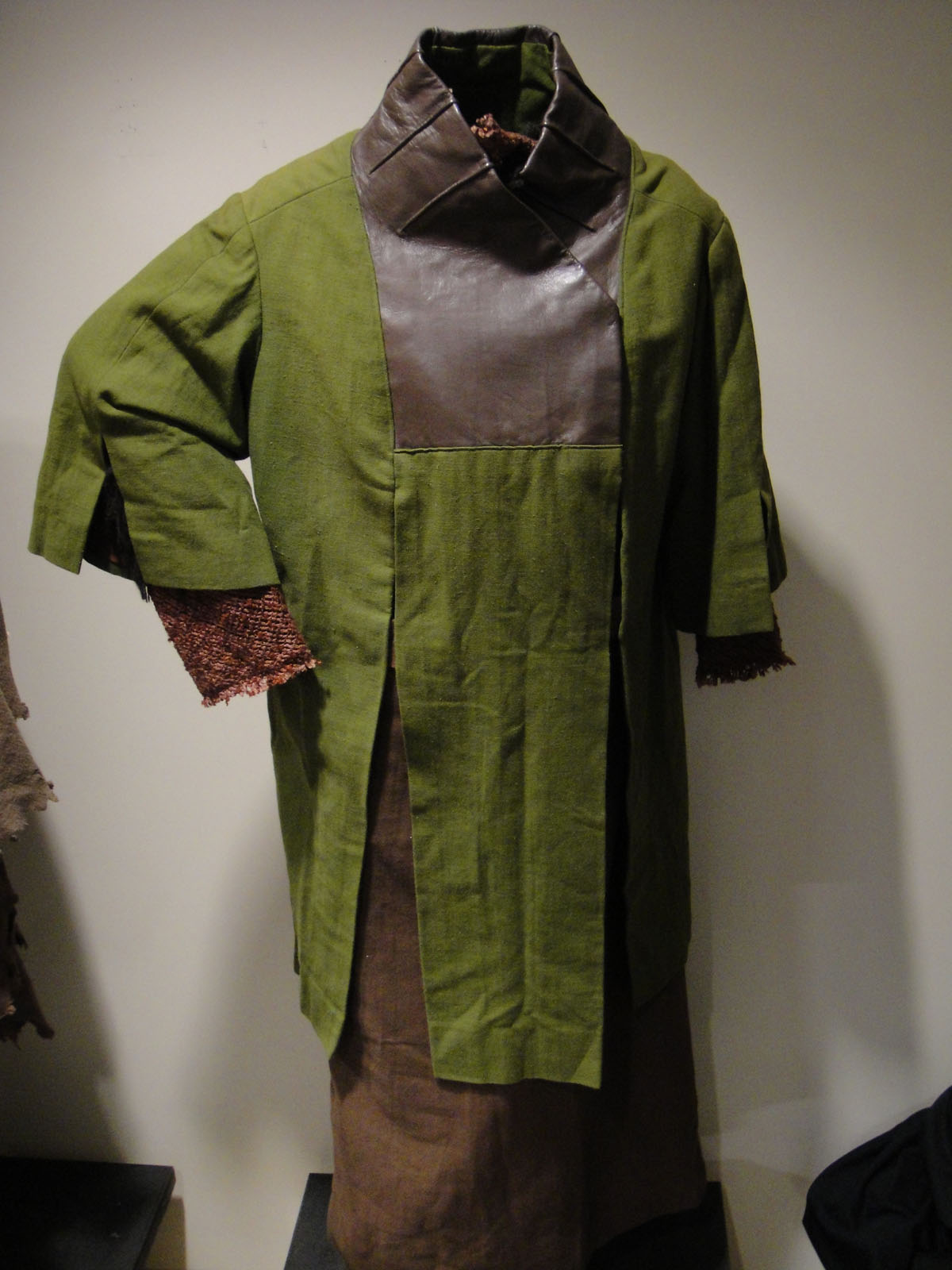 Planet of the Apes complete female chimpanzee costume at the Debbie Reynolds Auction Breaks Up Historic Hollywood Collection (The Paley Center for Media in Beverly Hills, Los Angeles, CA, USA).